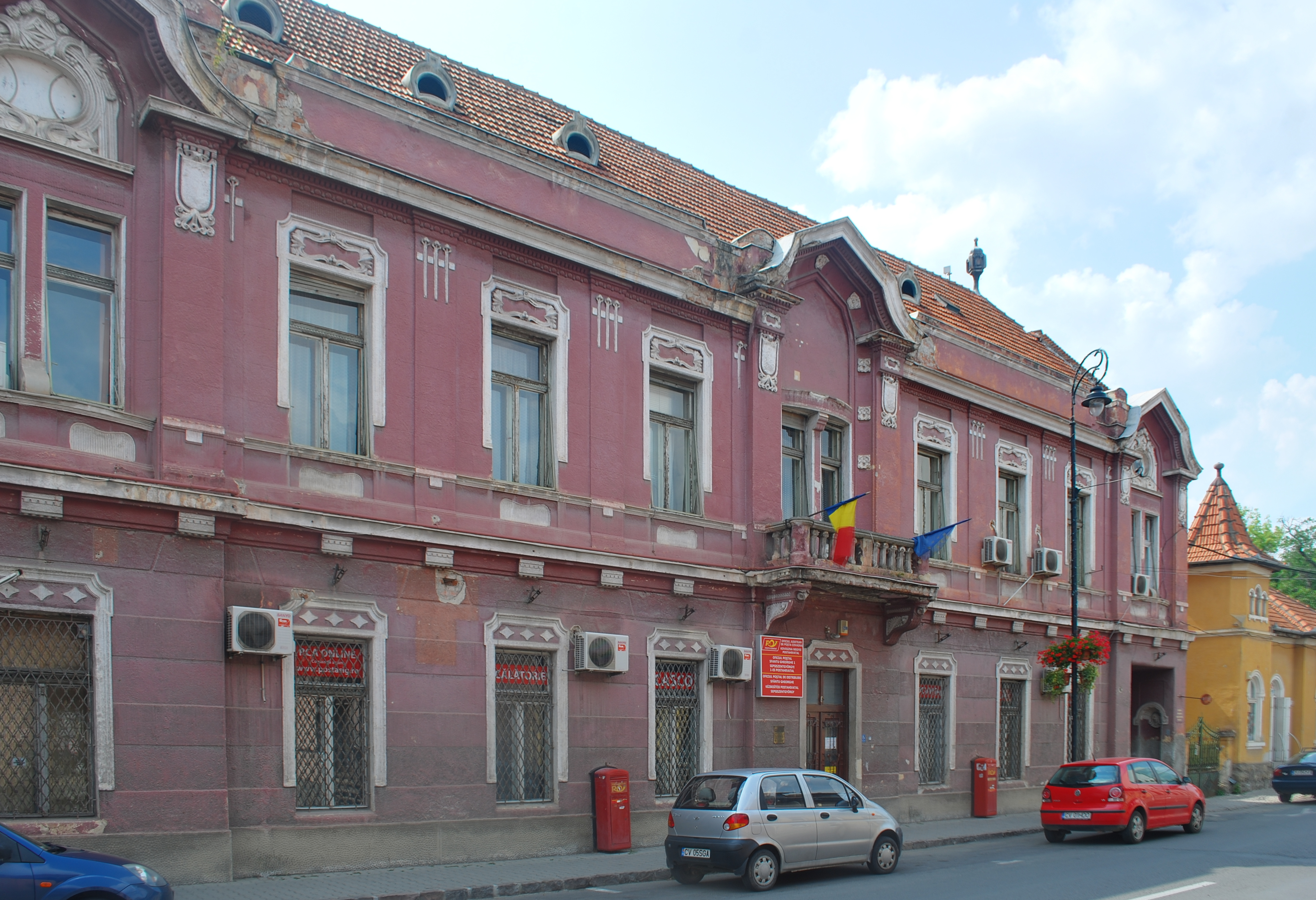 Former hotel "Hungaria", currently post office in Sfântu Gheorghe, Covasna County, Romania